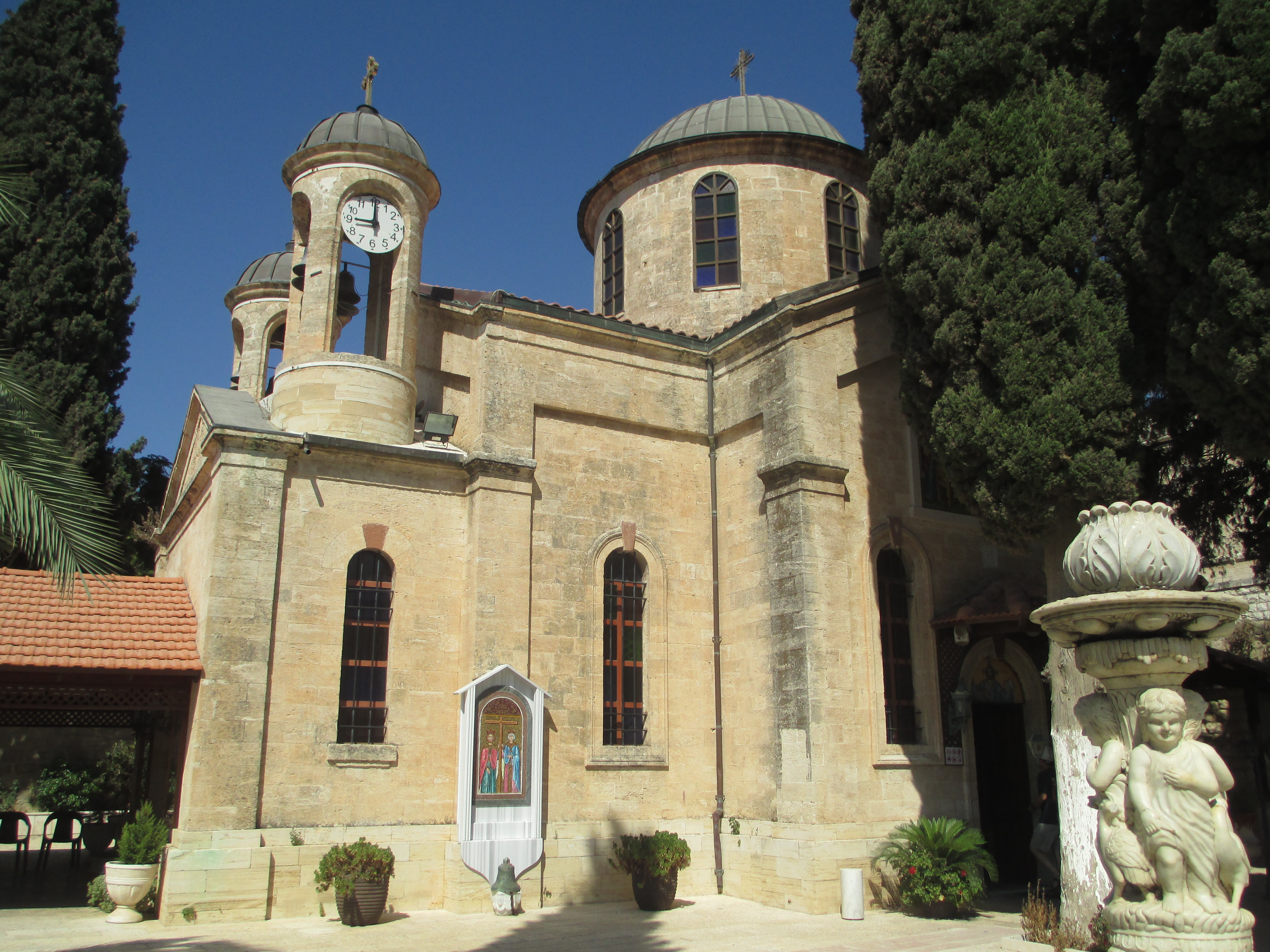 The Orthodox Wedding church in Kafr Kana